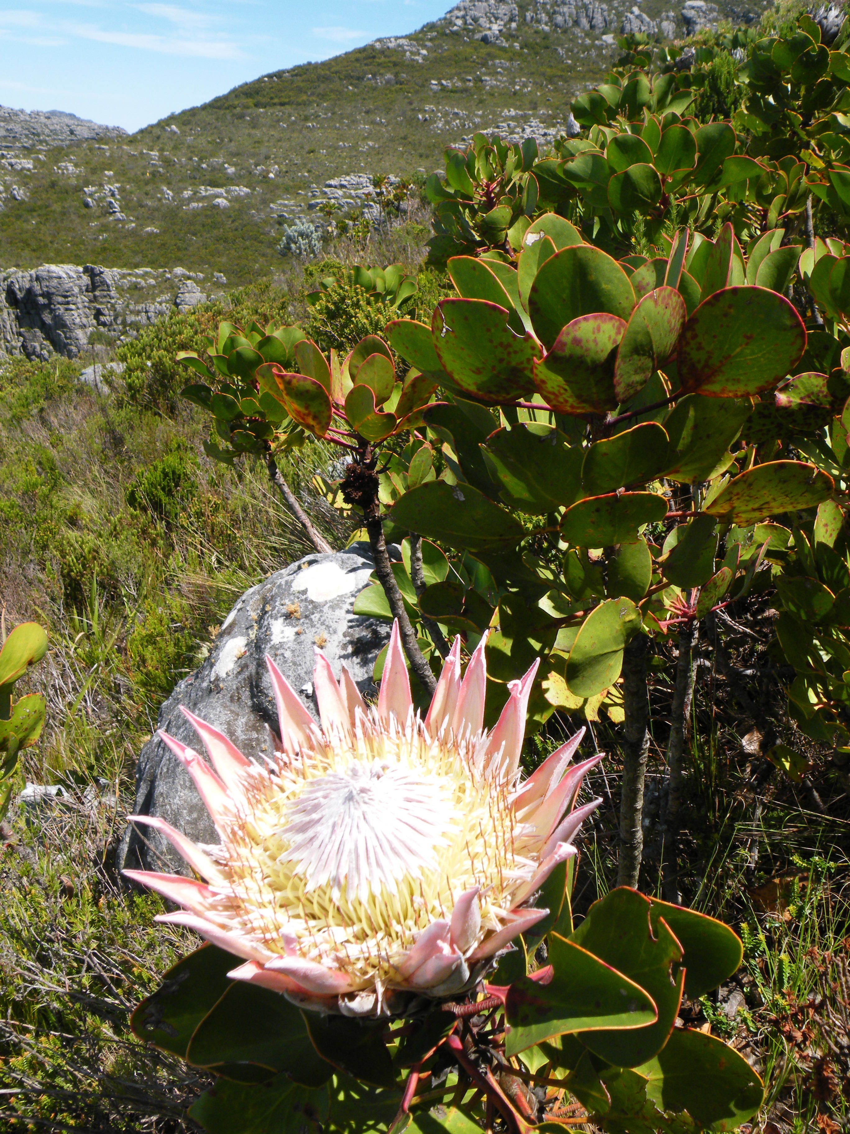 The King Protea growing in Peninsula Sandstaone Fynbos vegetation on Table Mountain. Cape Town.